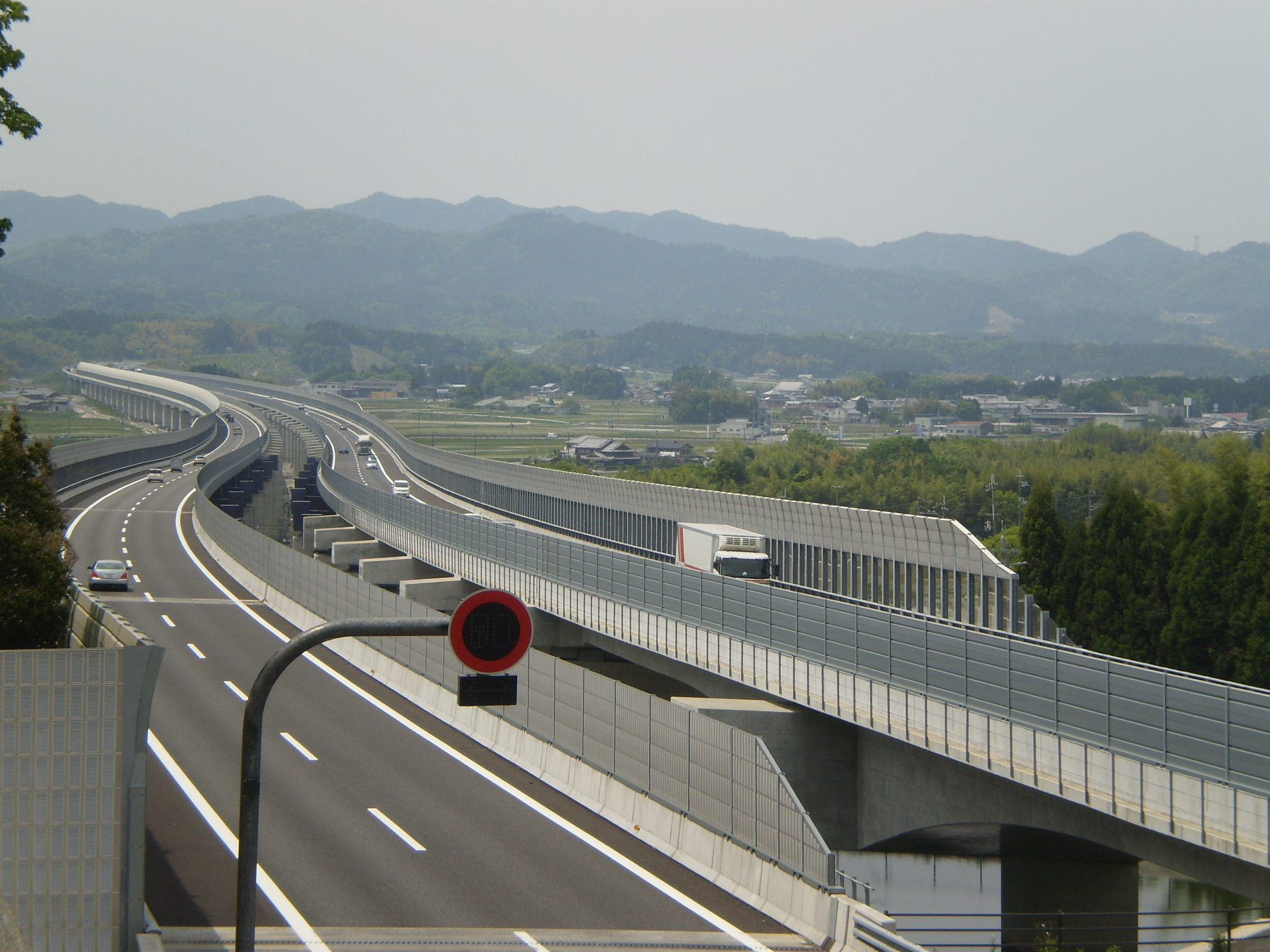 Shin-Meishin Expressway. I took this image at Takano Koka-cho Koka City Shiga Pref., Japan.